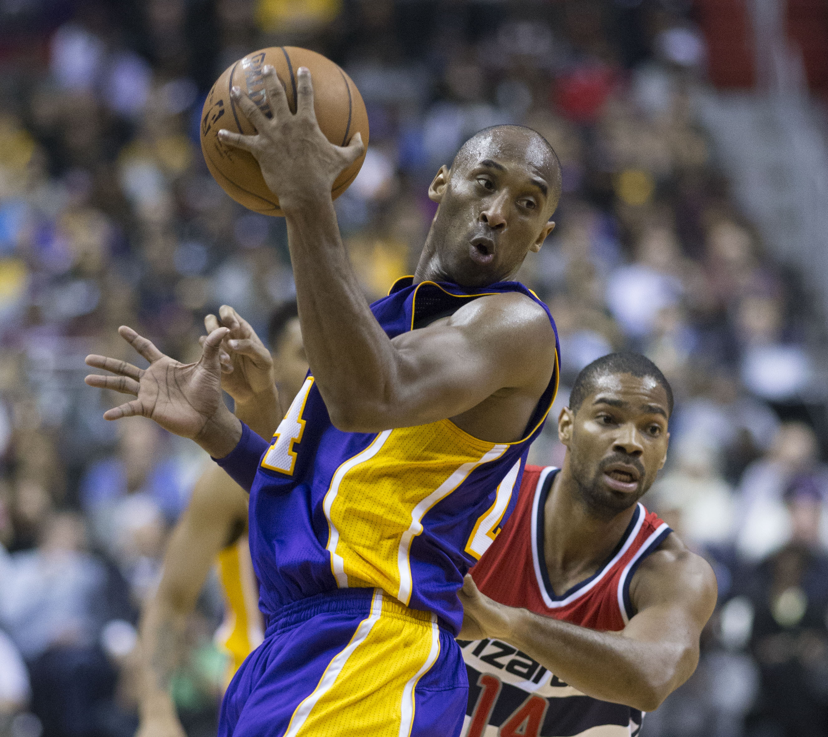 Kobe Bryant of Los Angeles Lakers against Gary Neal of Washington Wizards